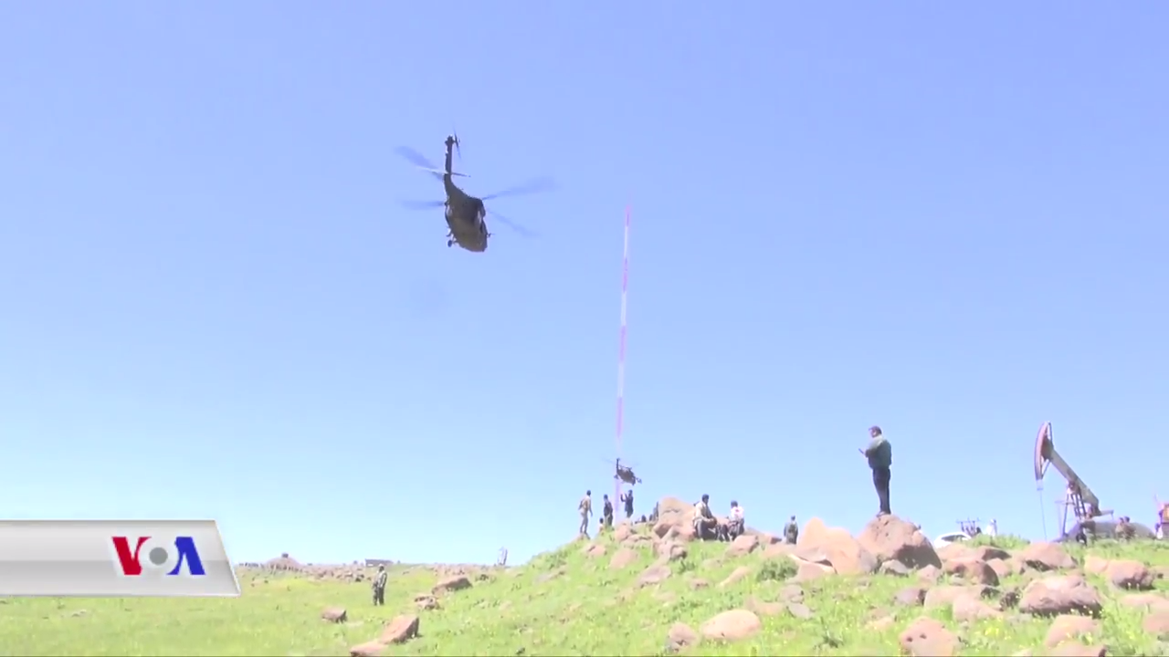 Two transport helicopters belonging to the United States Armed Forces fly over the northeastern Hasaka Governorate in northeastern Syria during the aftermath of Turkish airstrikes in the area.